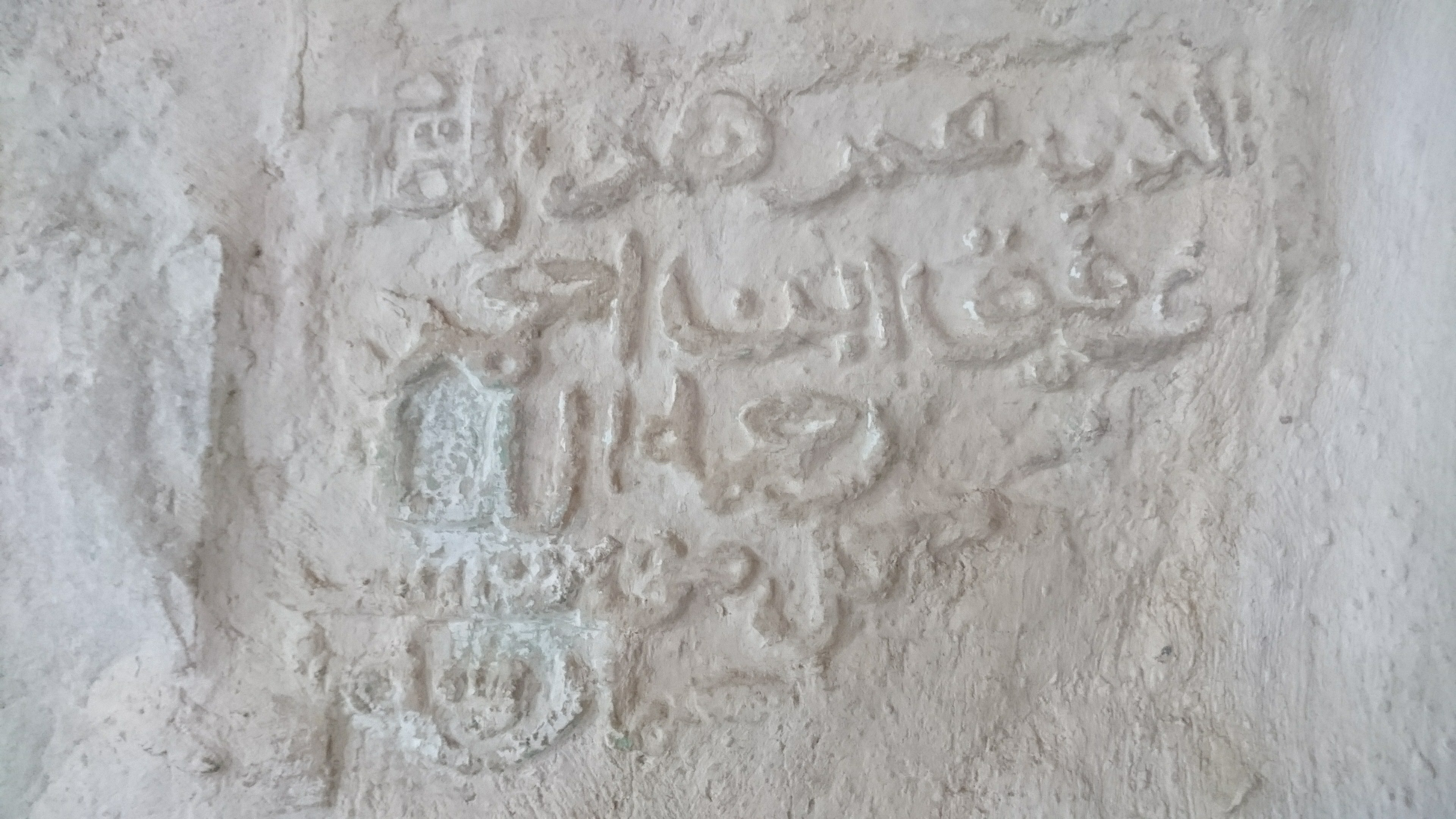 Momani Maqam Ain Jana, Ajloun, Jordan.